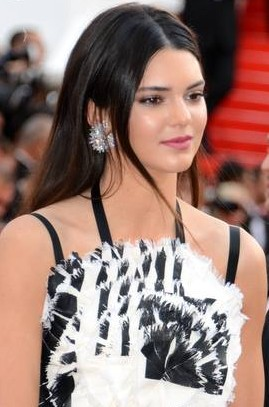 Kendall Jenner at the Cannes Film Festival